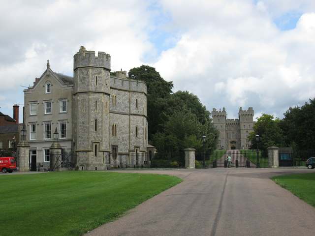 Entrance to The Home Park, Windsor The entrance to the park from Park Street and the start of The Long Walk